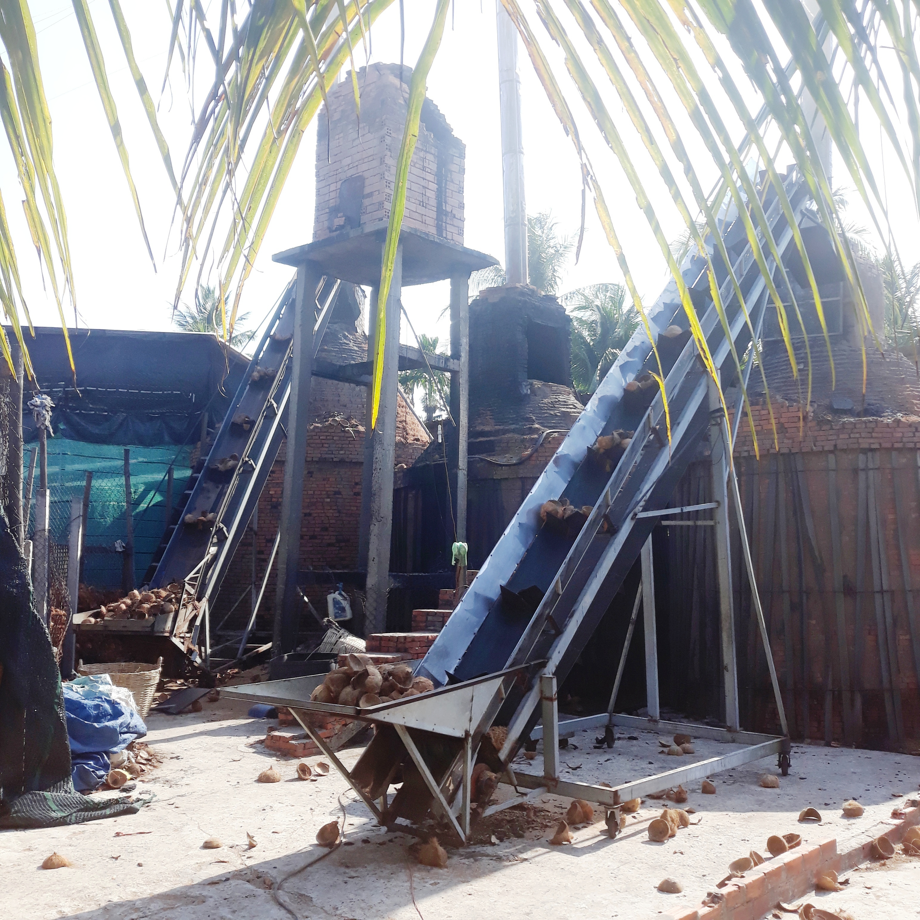 Supply of coconuts